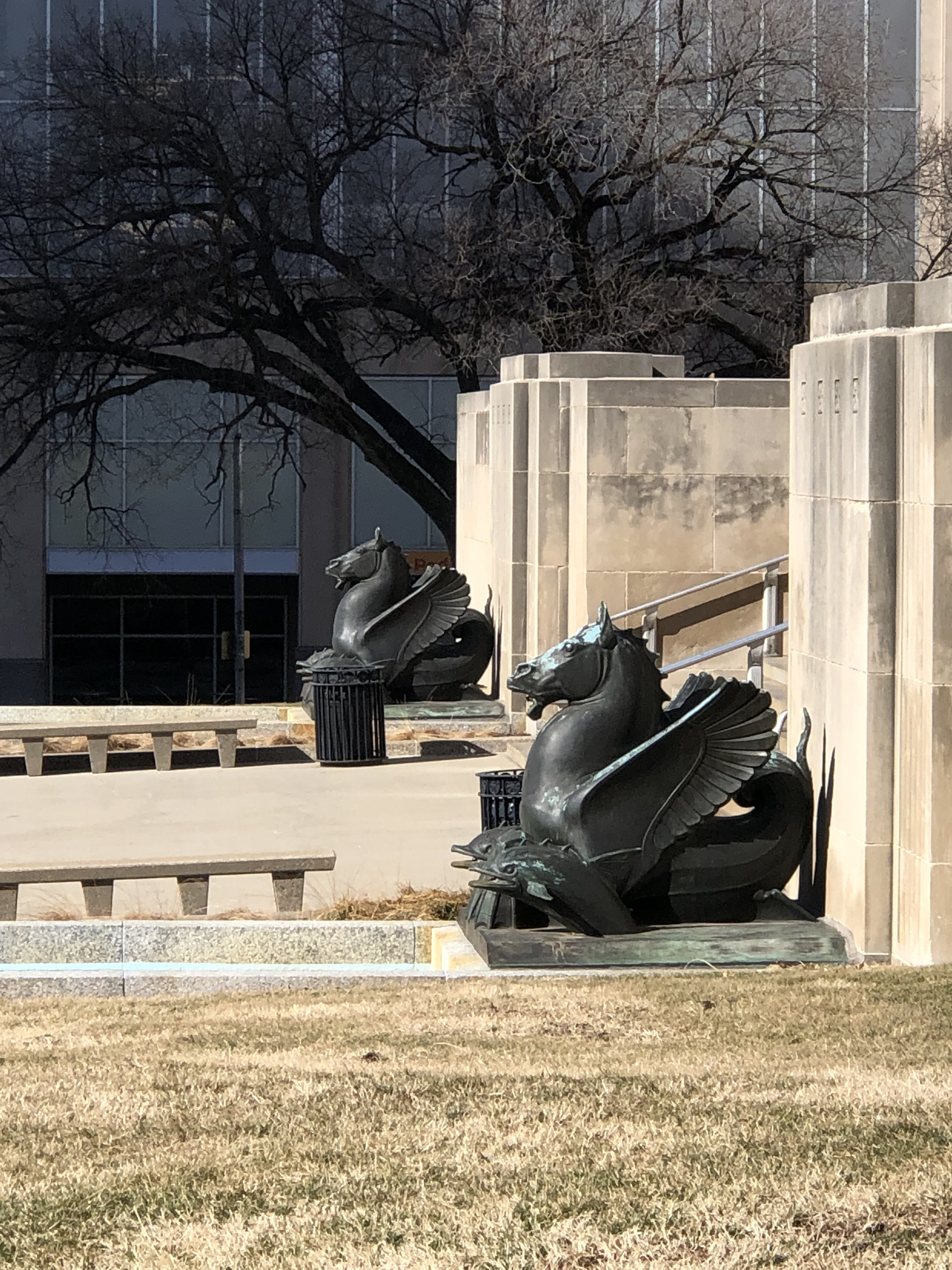 This is a photo of the seahorse fountains on the south side of Kansas City City Hall. They are known as "Lug" and Cut". They were named for “Lugs” of the political machine and “Cuts” in pay experienced by city workers in the 1930s.